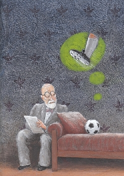 Therapylabel QS:Len,"Therapy" label QS:Lde,"Therapie"